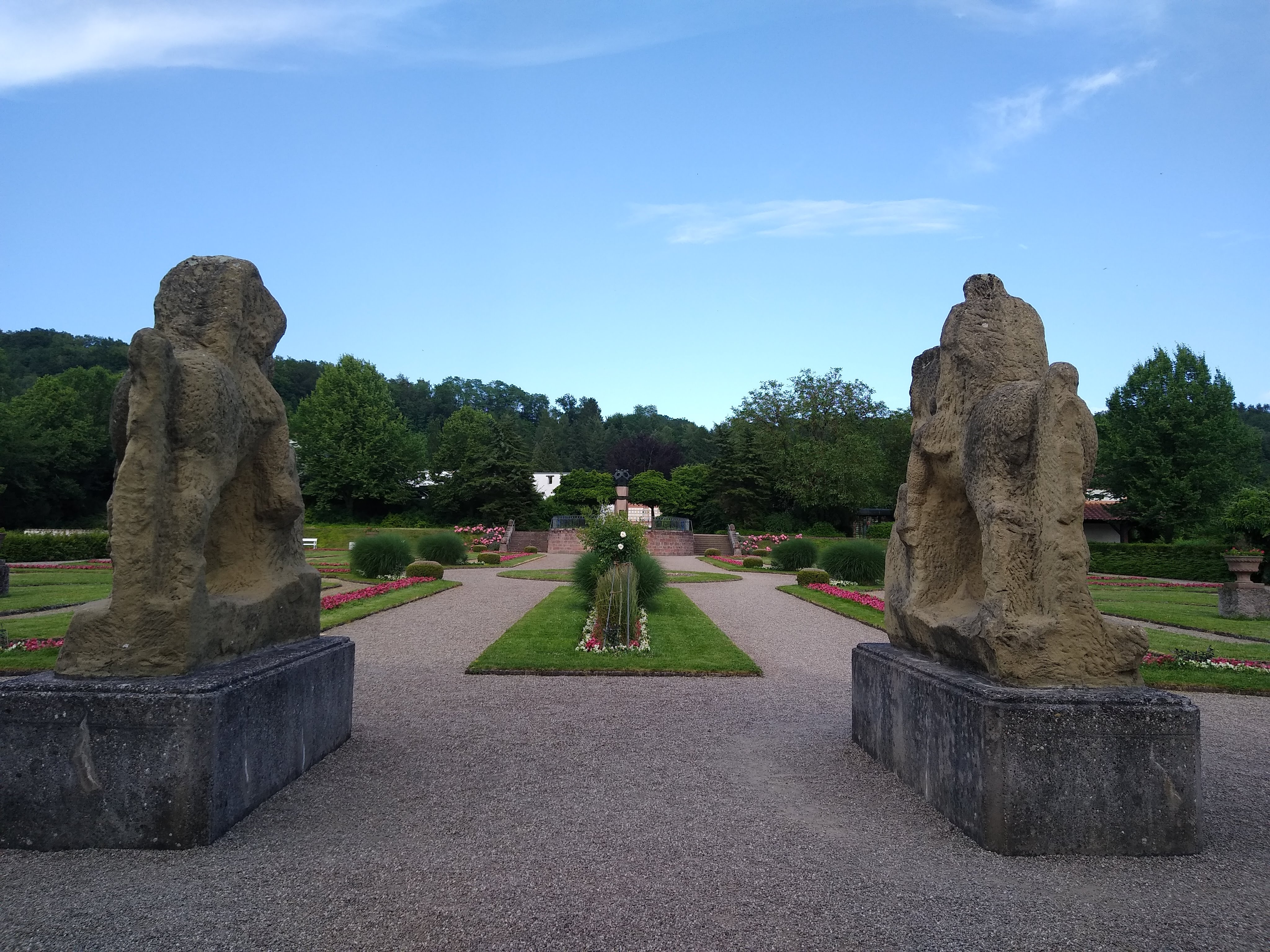 Reiterstatuen Römermuseum Schwarzenacker